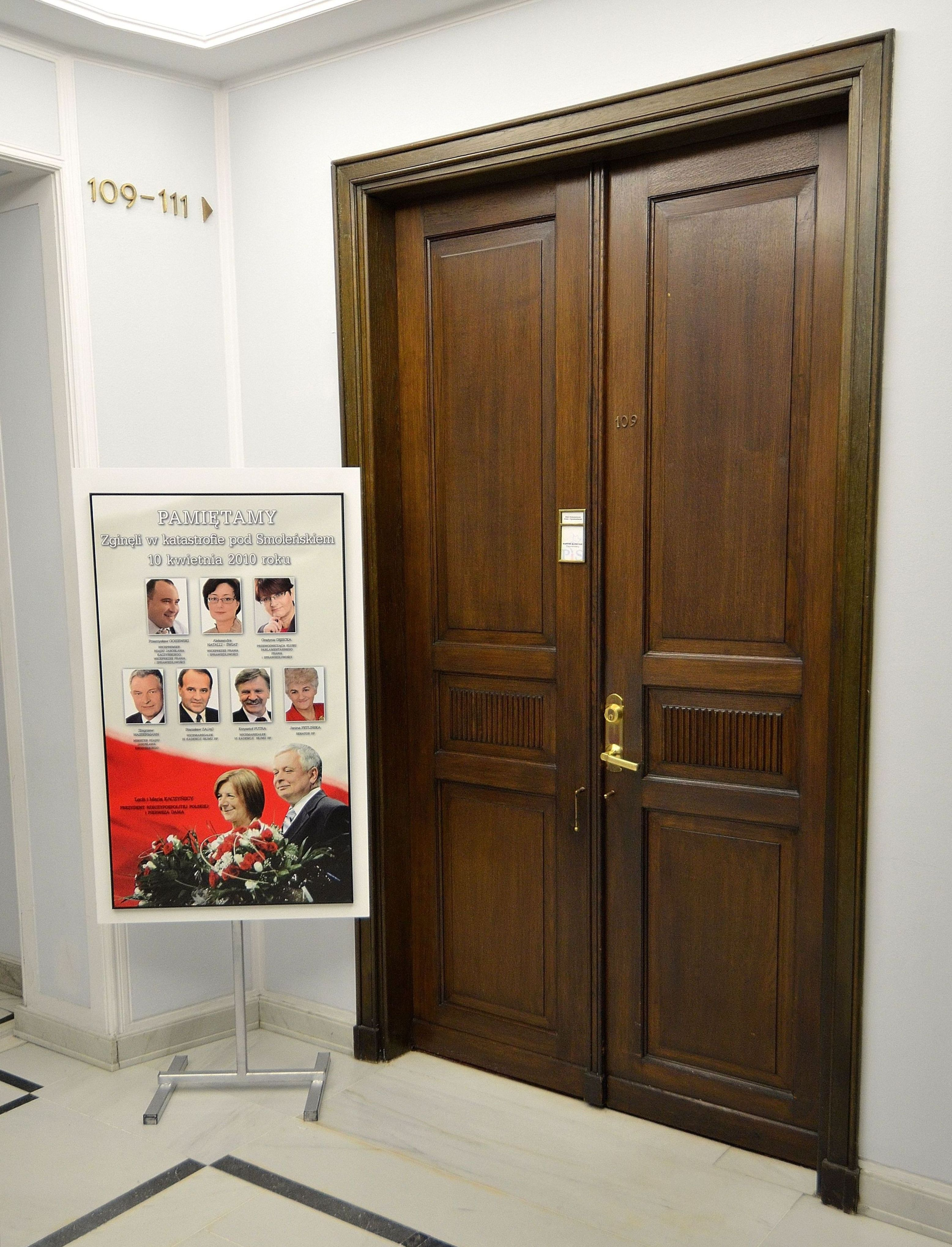 Information board in memory of Law and Justice parliamentarians who died in 2010 Polish Air Force Tu-154 crash near Smoleńsk in the Sejm in Warsaw (Room 109, Law and Justice parliamentary club, Building C-D)